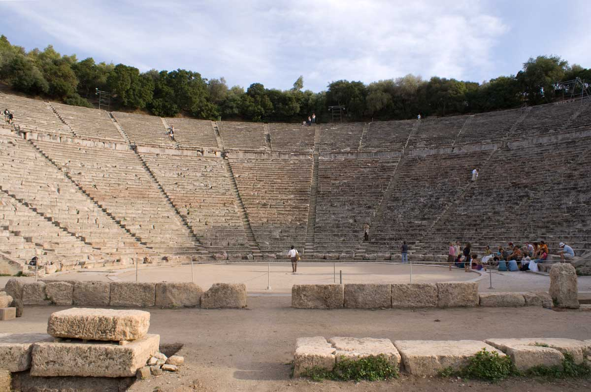 Frontview of the theater. Epidaurus.